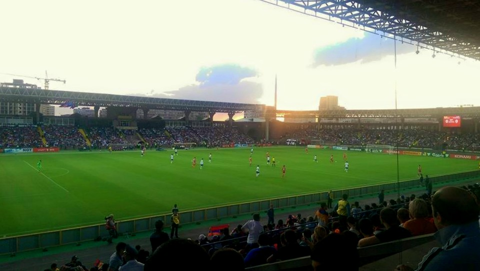 Armenia vs Portugal, 13 June 2015, V. Sargsyan Rep. Stad. Yerevan